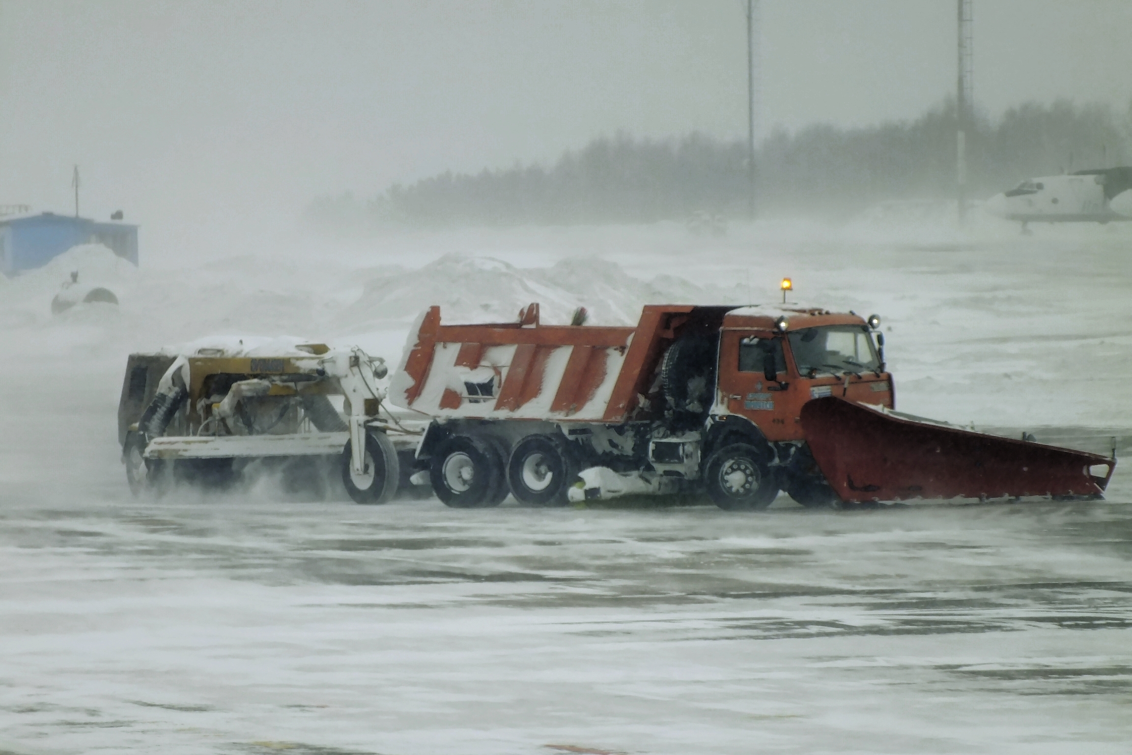 Orange KamAZ dump truck removing snow at the International Airport Irkutsk.